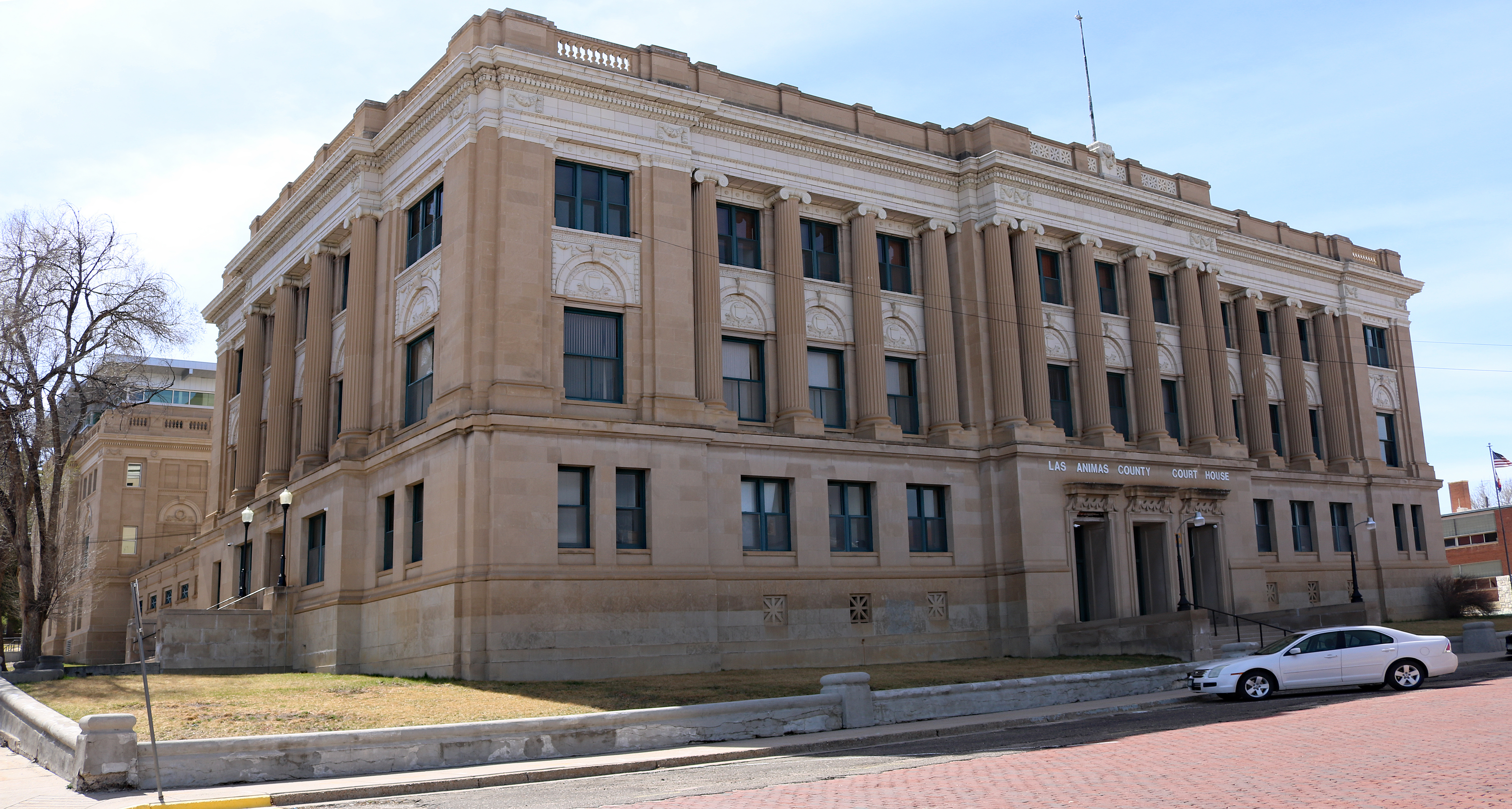 The Las Animas County Court House, located at 200 East 1st Street in Trinidad, Colorado 81082.